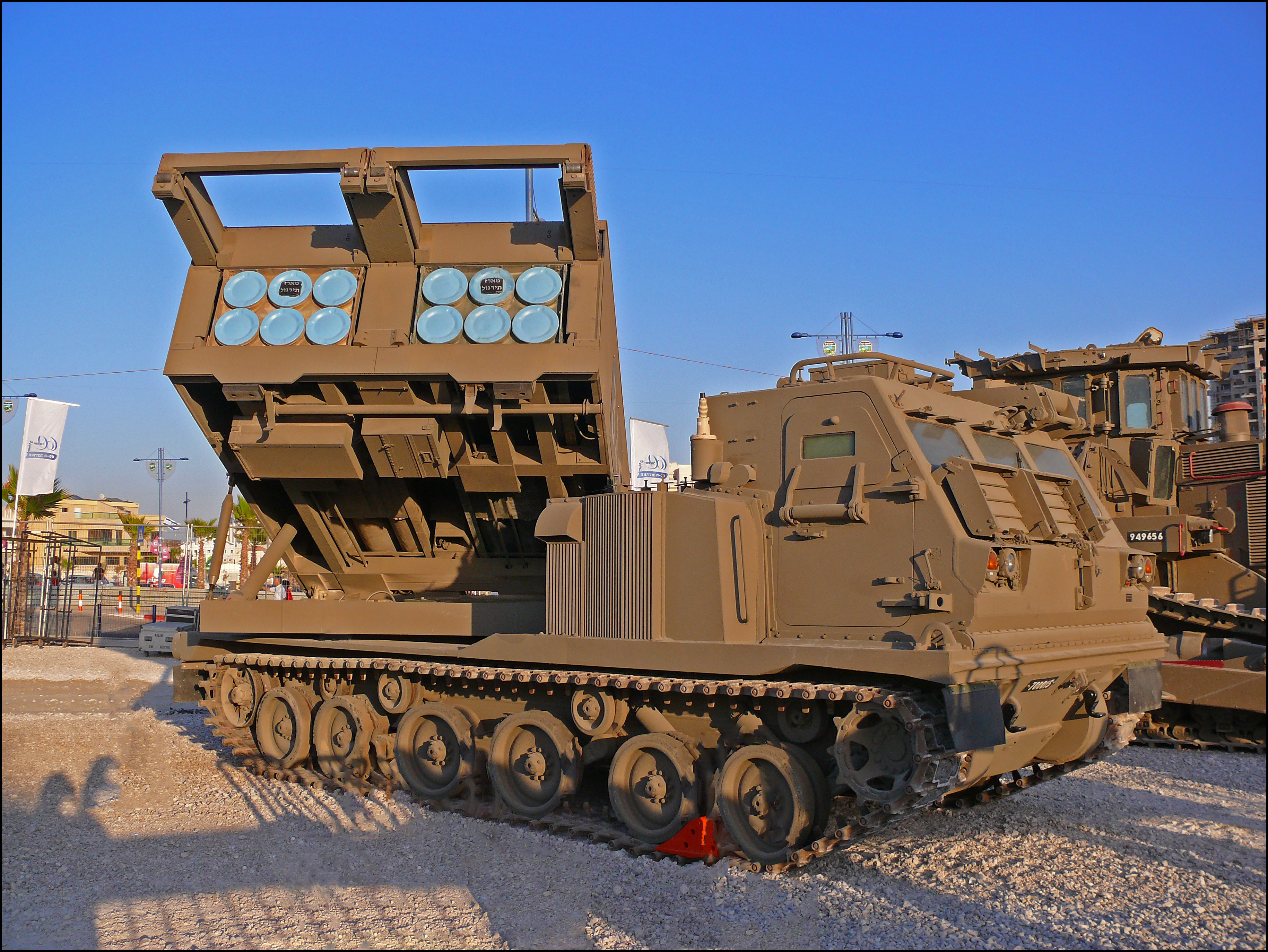 IDF "Menatetz" M270 MLRS artillery system, on display in Israel's 60th anniversary Security and Defense Expo 2008 in Rishon LeZion, Israel.